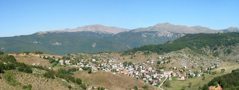 Panorama of village Lazaropole in Republic of Mace donia. Made by Rado Stoaynov on 8 September 2004